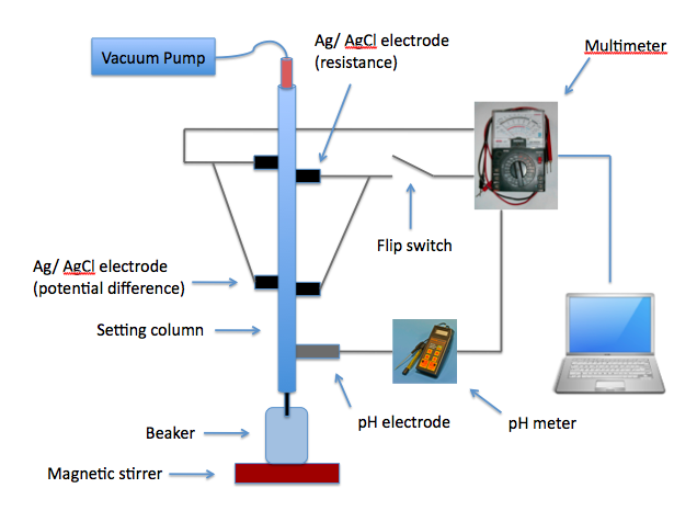 Rotational method for measurement of sedimentation potential.